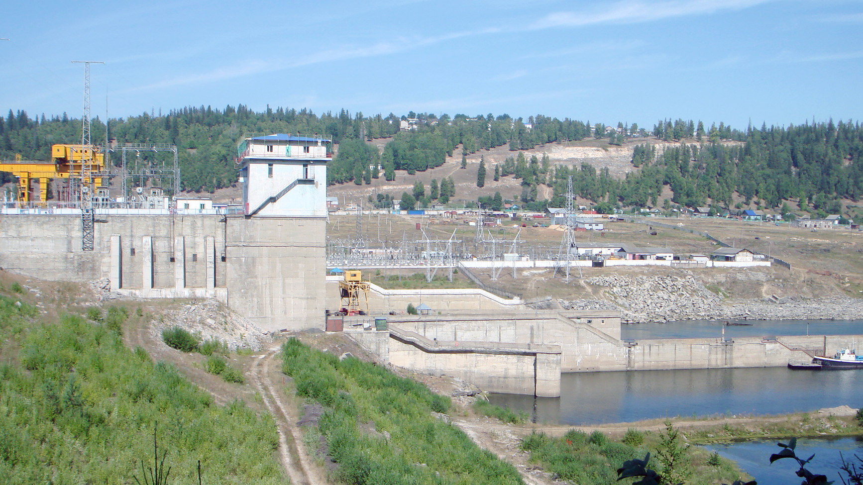 Pavlovskaya dam from right side